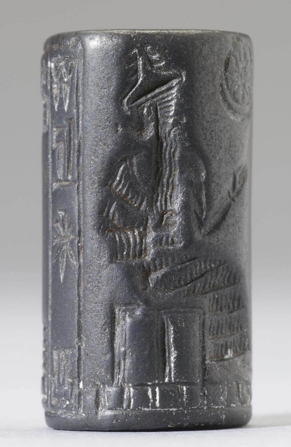 (CORRECTED description: Seated King, Man, + Inscription) (Incorrect-Two uses of 42775)Although the Achaemenids used stamp seals for private documents, cylinder seals continued to be used for official royal business. This seal depicts the king fighting a lion-griffin in two scenes. First, he engages in close combat with the lion-griffin. Second, the king, standing on a reclining sphinx, aims his bow at the mythical beast, also standing on a sphinx. Between them is the benign god Ahura Mazda in an oval cartouche, with a winged disk above.